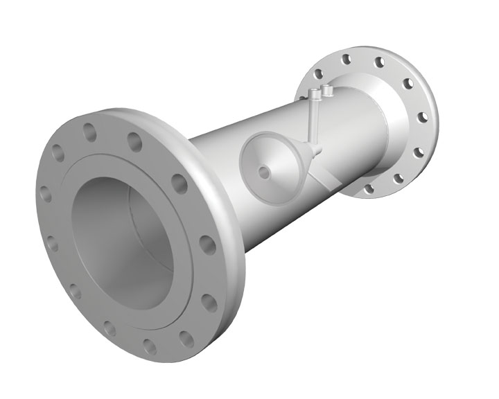 8 inch V-Cone Flowmeter 3D image showing with ANSI 300# Raised Face Weld Neck Flanges